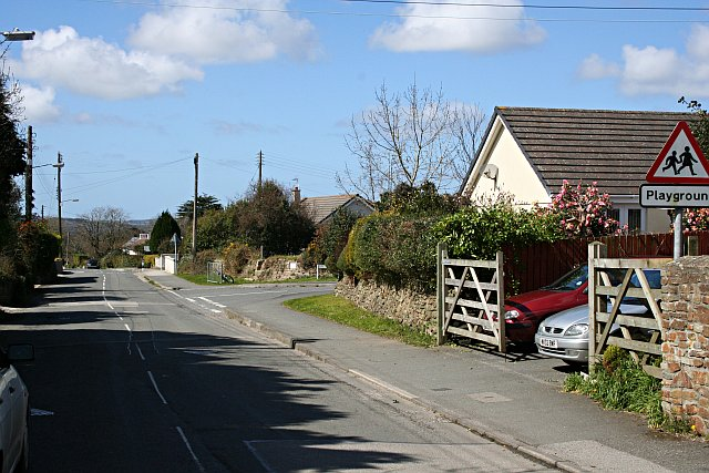 Bissoe Road, Carnon Downs. Carnon Downs consists mostly of bungalow and detached housing built in the latter half of the 20th century.